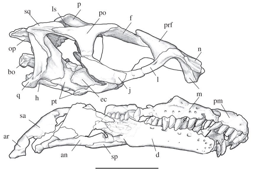 Crop of file in filename